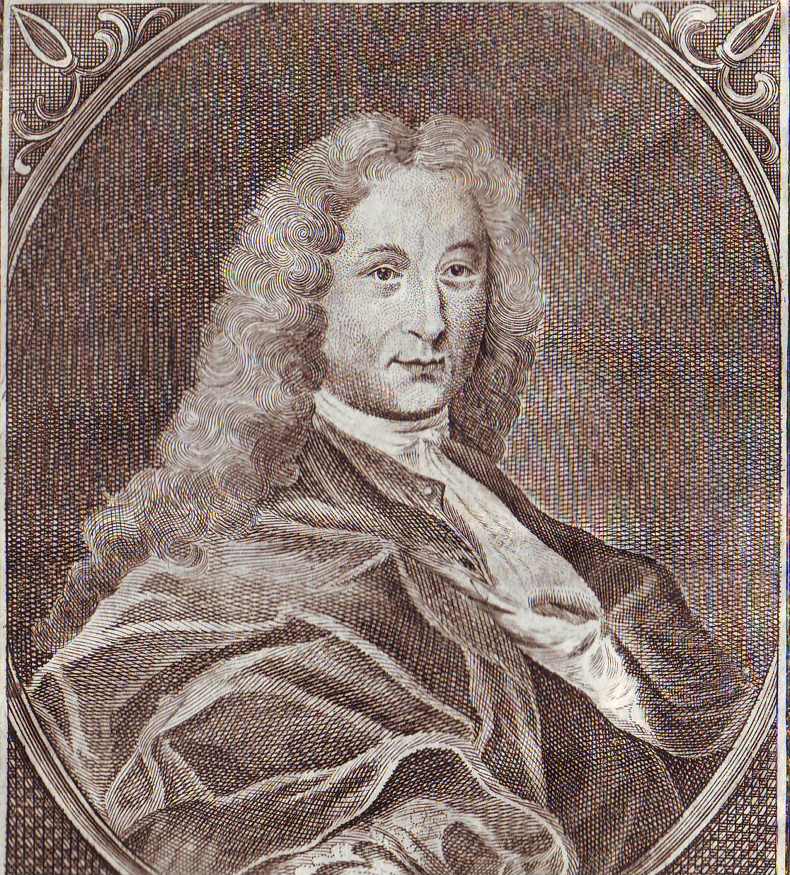 Image of Jan Palfijn (Jean Palfin in french, Giovanni Palfino in italian)